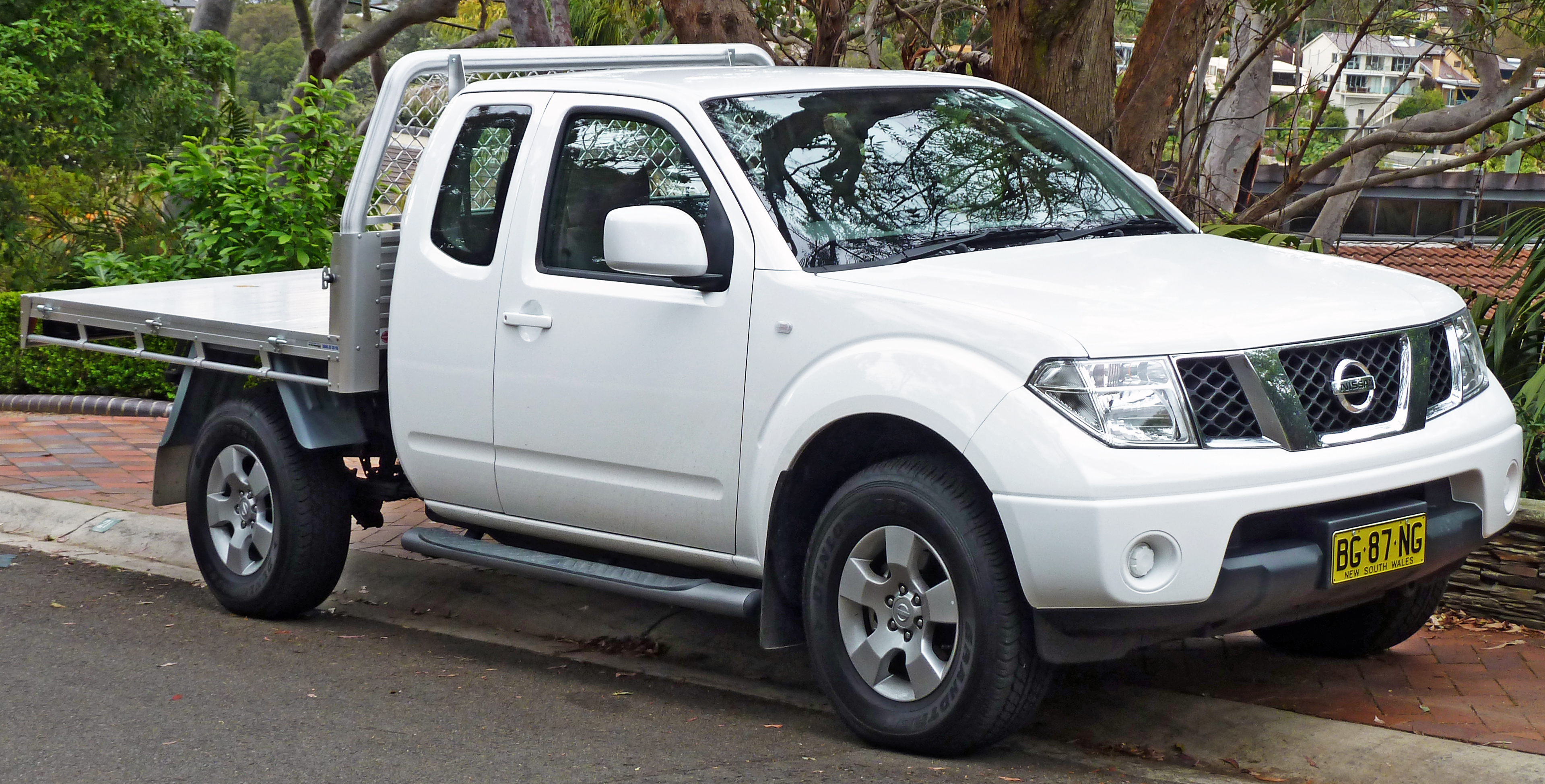 2008–2010 Nissan Navara (D40) King Cab 4-door cab chassis. Photographed in Gymea Bay, New South Wales, Australia.